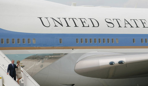 George and Laura Bush deplane Air Force One on their arrival to Orly Airport in Paris.